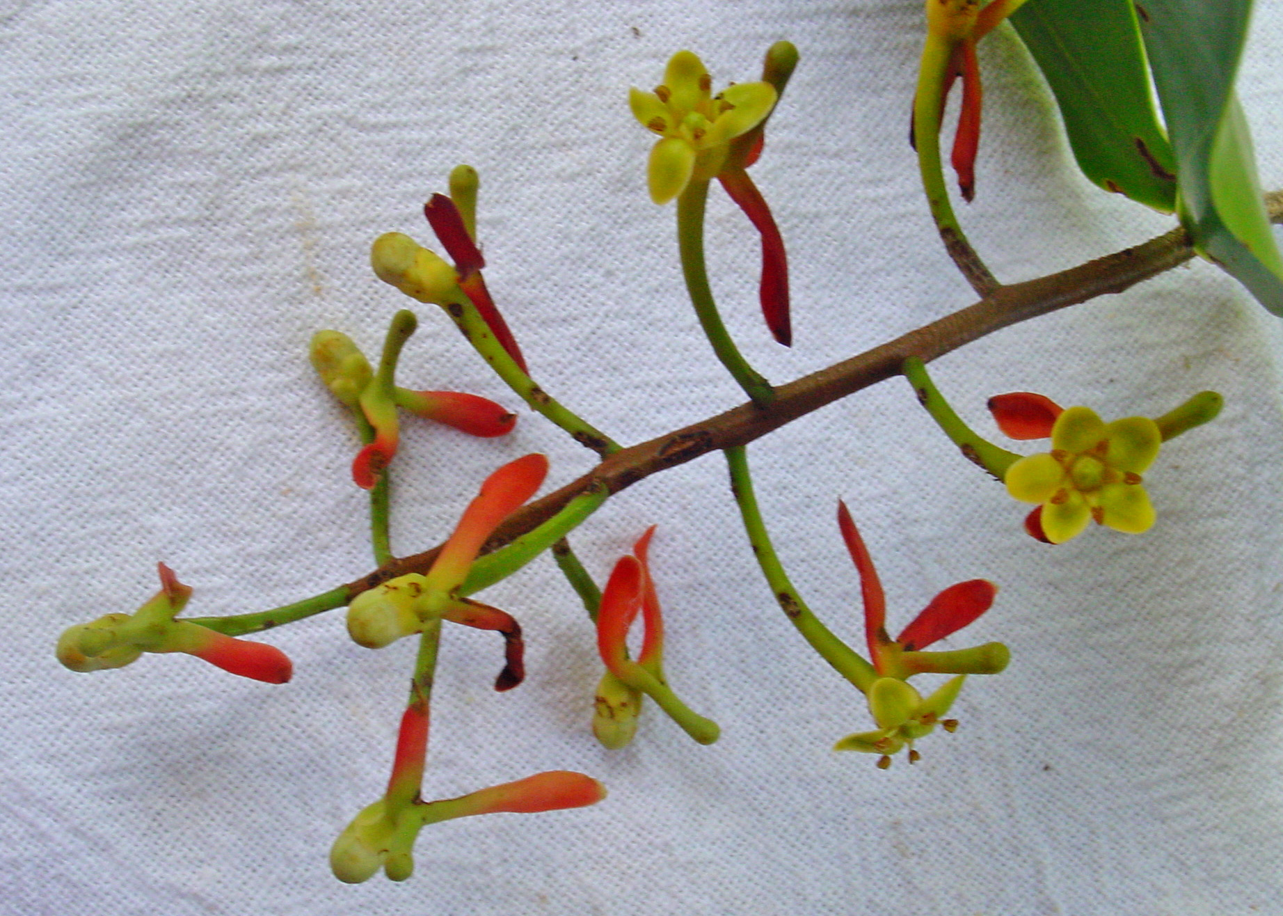 Souroubea guianensis Aubl.